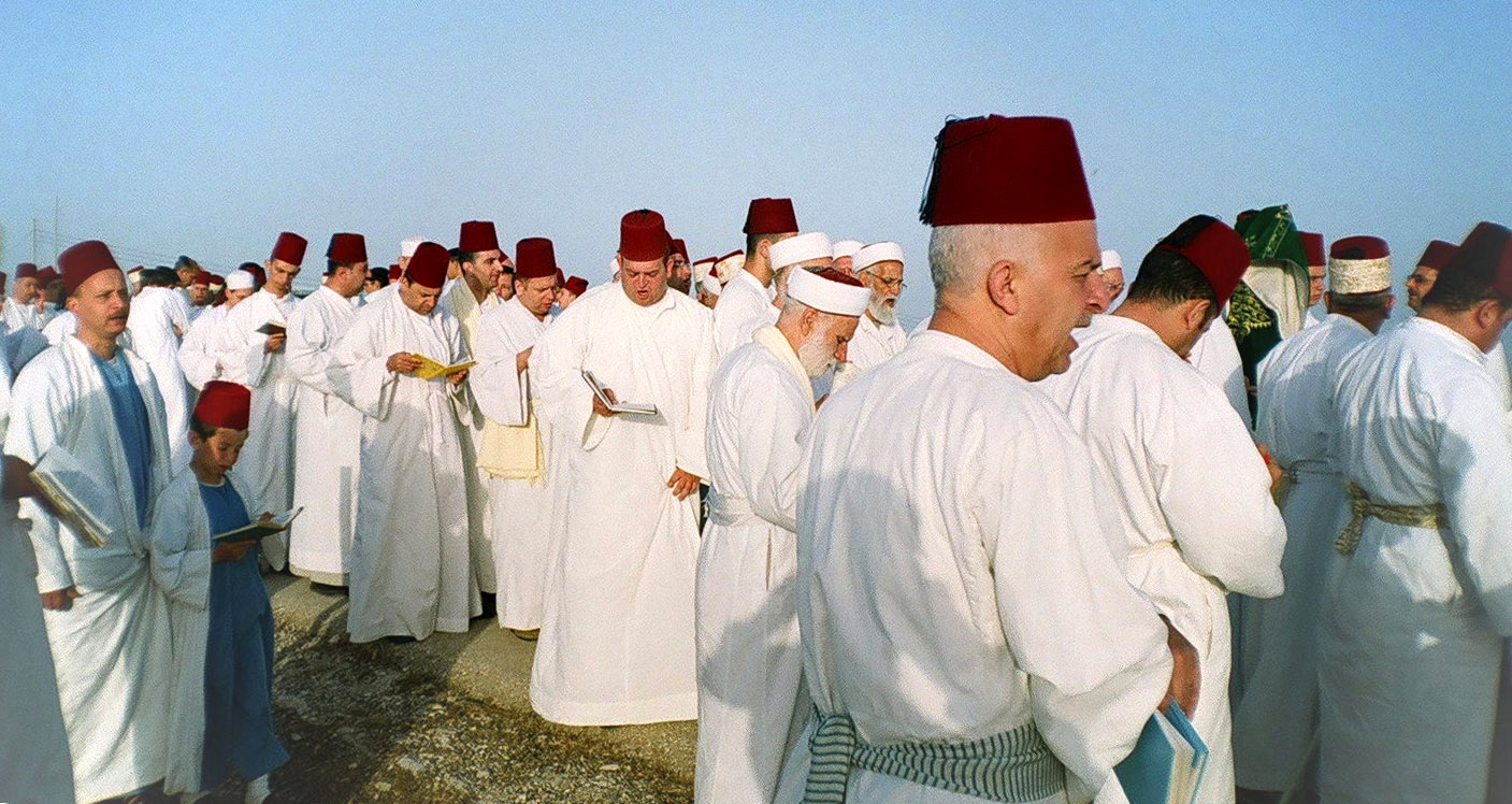 Samaritans on Mount Gerizim